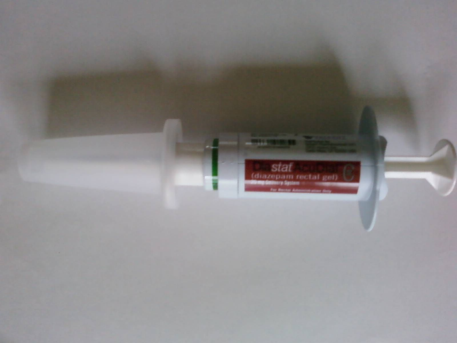 a syringe of rectal valium